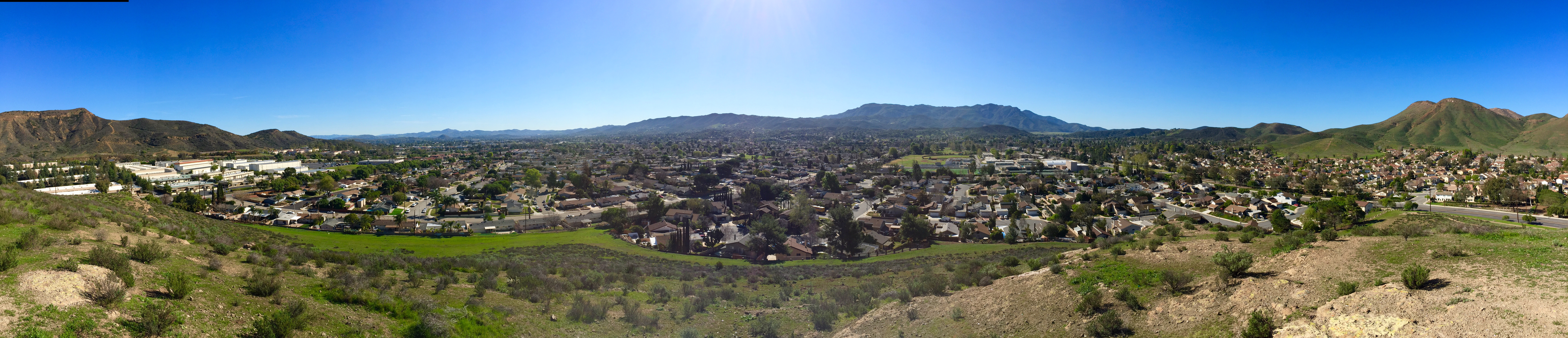 Panoramic view of Newbury Park and the Conejo Valley from Rabbit Hill in Knoll Open Space.